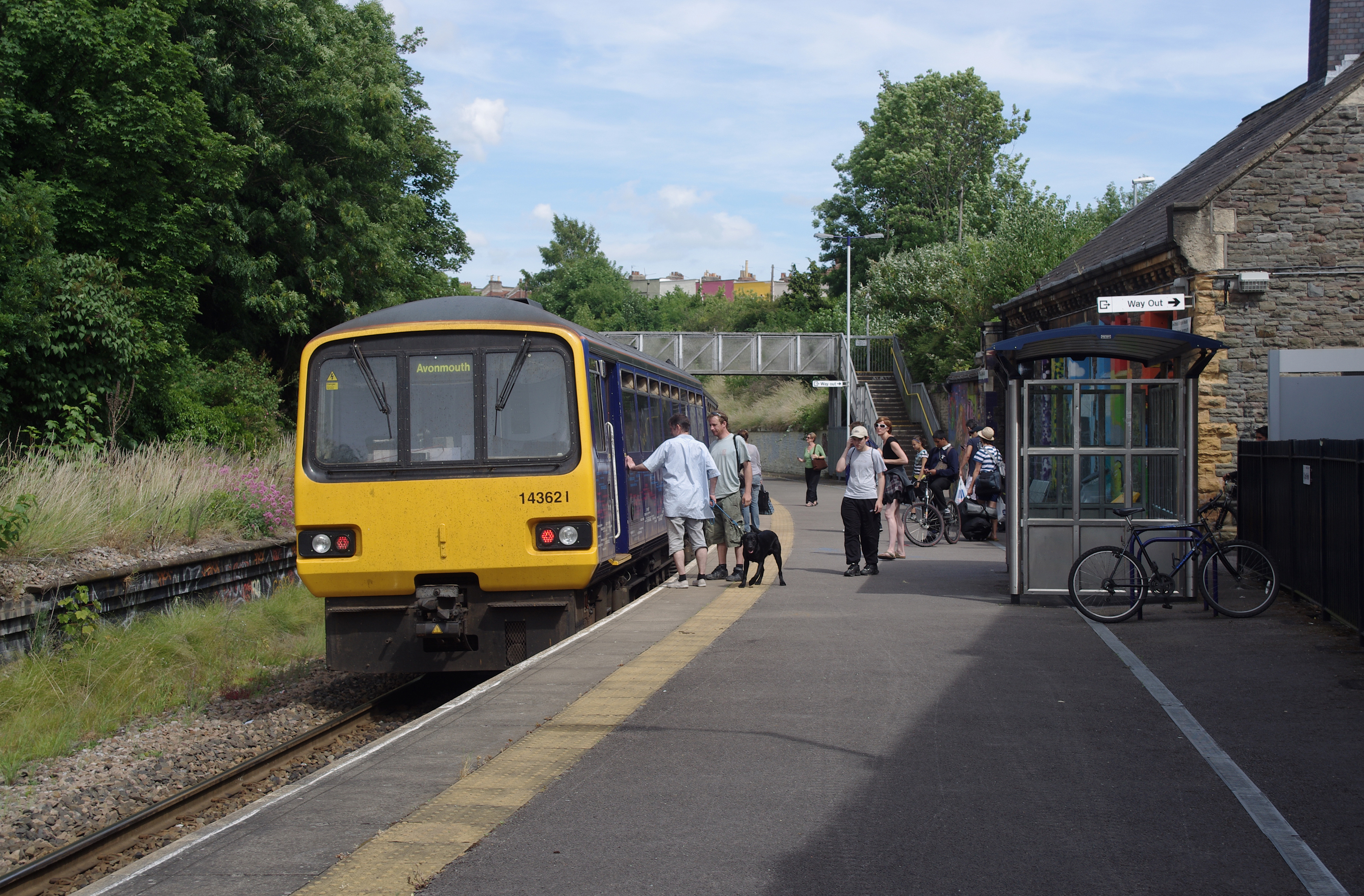 First Great Western 143621 stops at Montpelier with a Severn Beach Line service to Bristol Temple Meads.